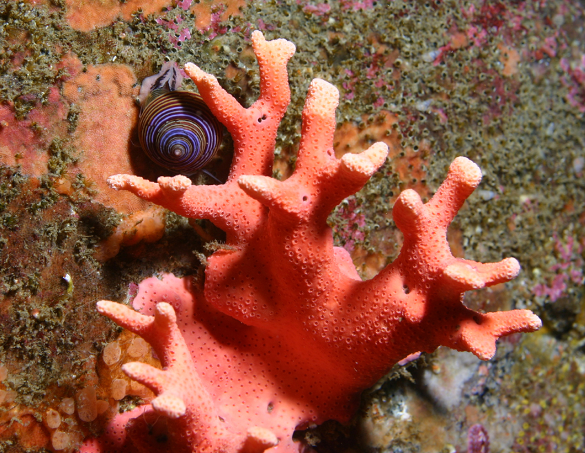 The robust form of the orange bryozoan A blue top snail Calliostoma ligatum crawls under the branches of a California hydrocoral Stylaster californicus.